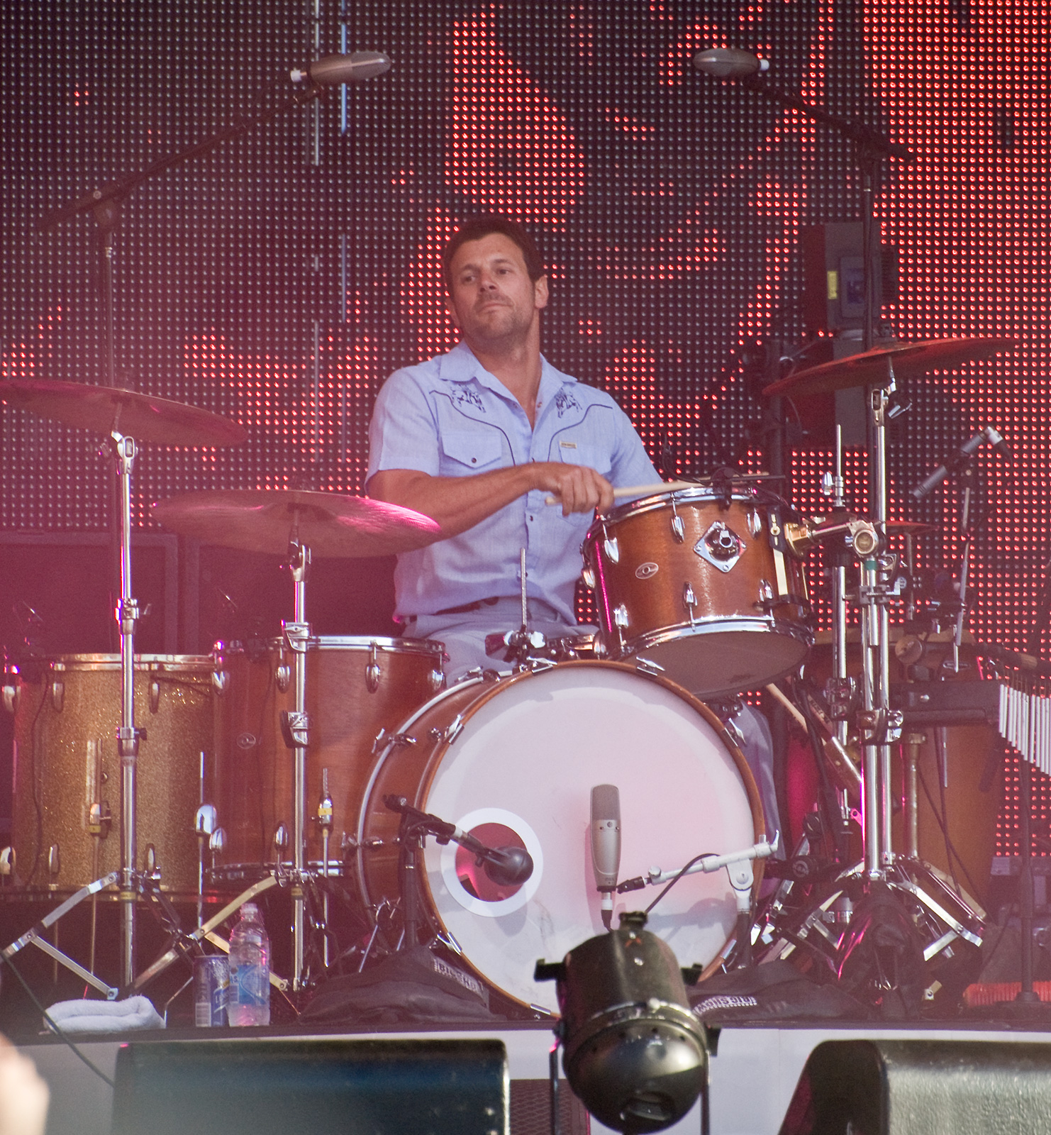 Jon Coghill